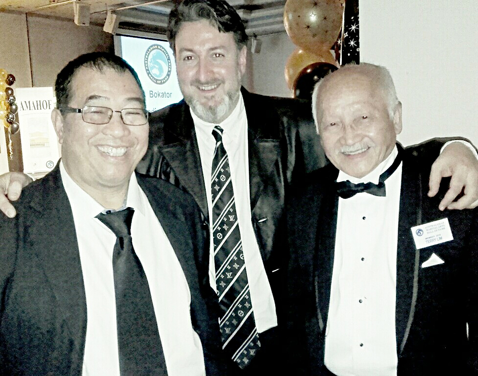 Maurice Novoa Ruiz with his guest Felix Leong at Terry Lim's Hall of Fame award black tie dinner